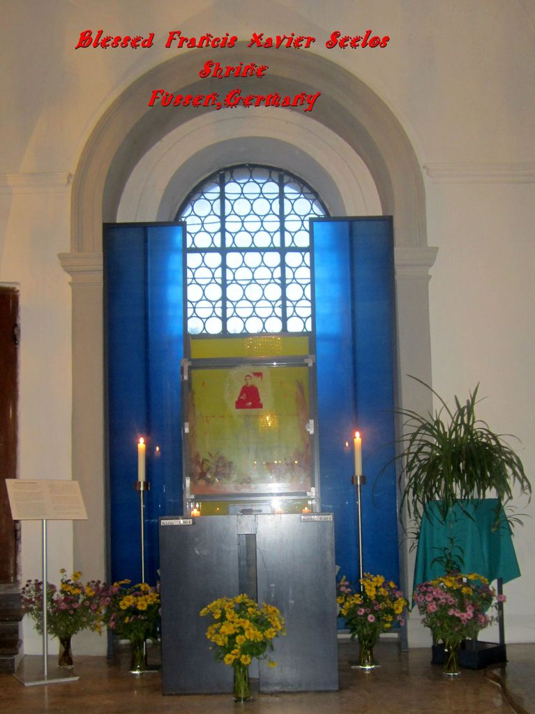 Shrine of Blessed Francis Xavier Seelos,St Mang Basilica,Füssen,Germany.